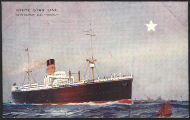 The White Star Liner Vedic